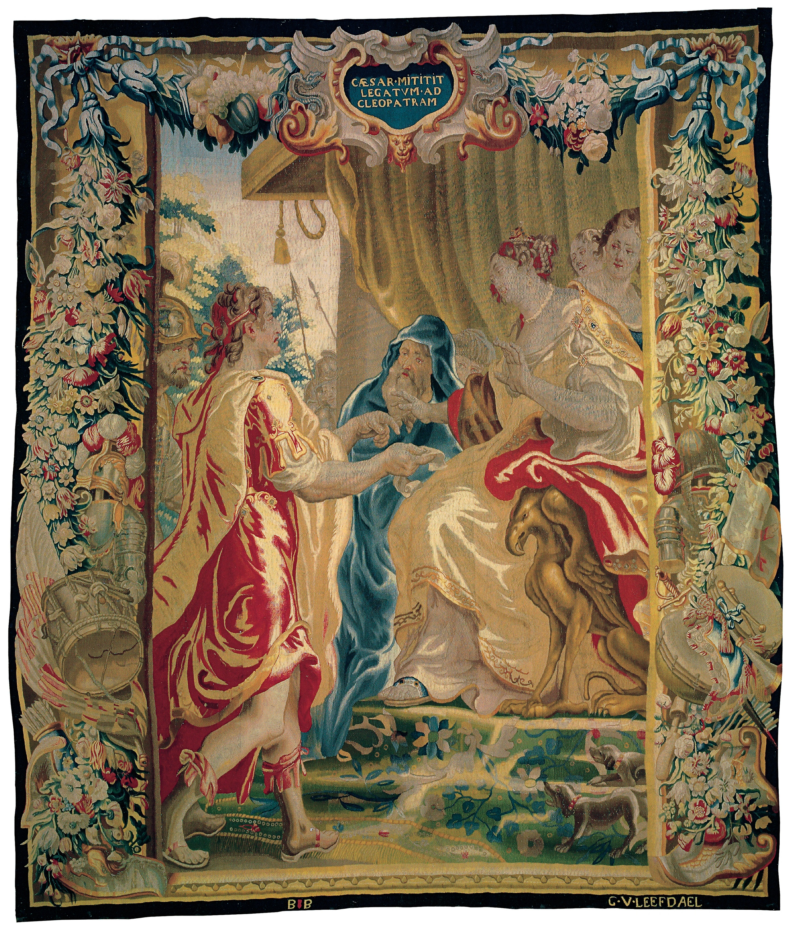 Caesar Sends a Messenger to Cleopatra from the Story of Caesar and Cleopatra by Justus van Egmont